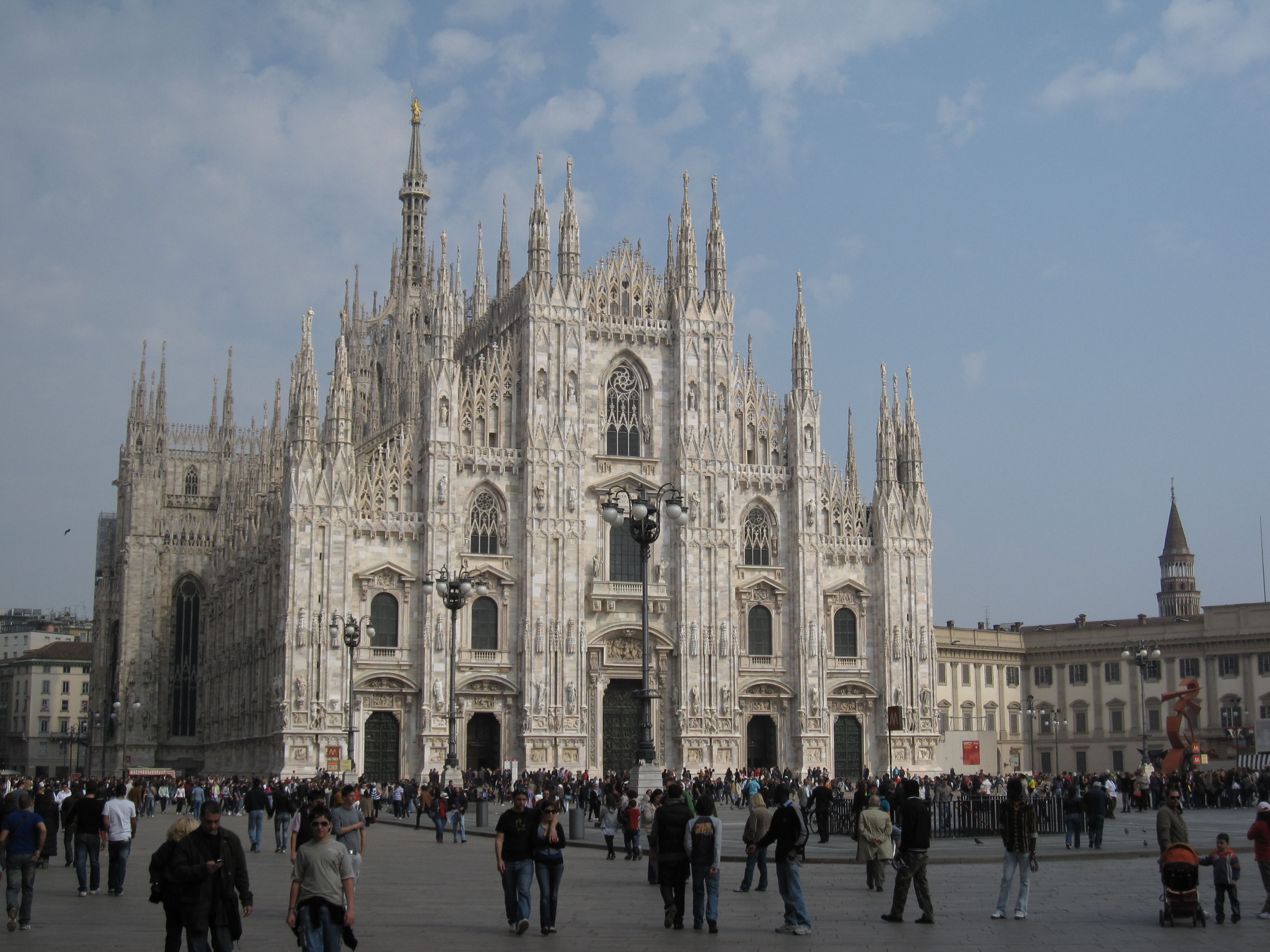 Gothic Duomo di Milano - west facade